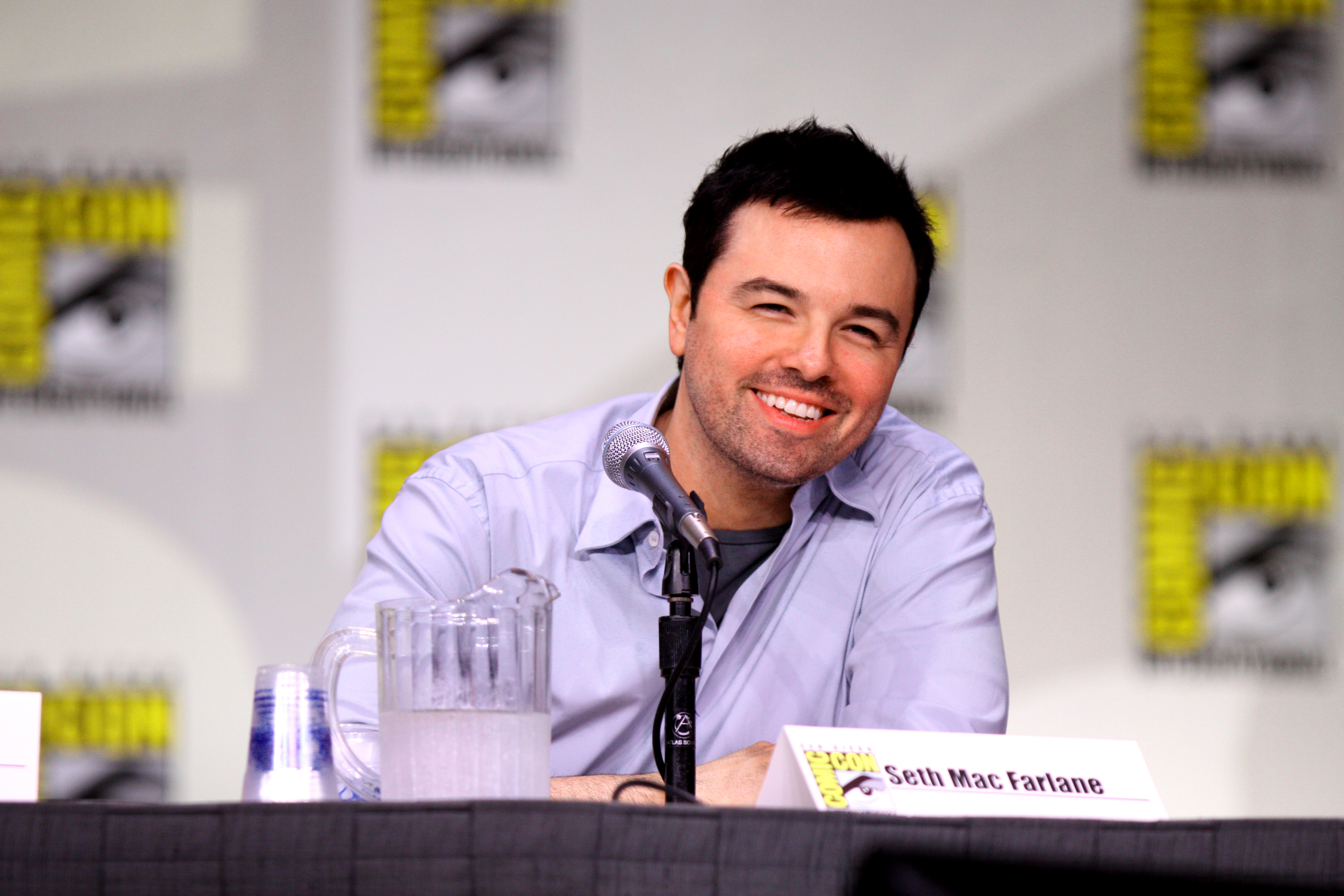 Seth MacFarlane at the 2011 San Diego Comic-Con International in San Diego, California.